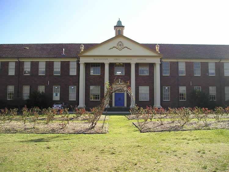 Front steps of Macarthur Girls High School, Parramatta